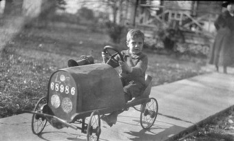 A boy sitting on a small pedal car with the numbers 68986 on the front. The boy has his foot on a pedal and his hands on the wheel of the car, and there is a woman and a building in the background.